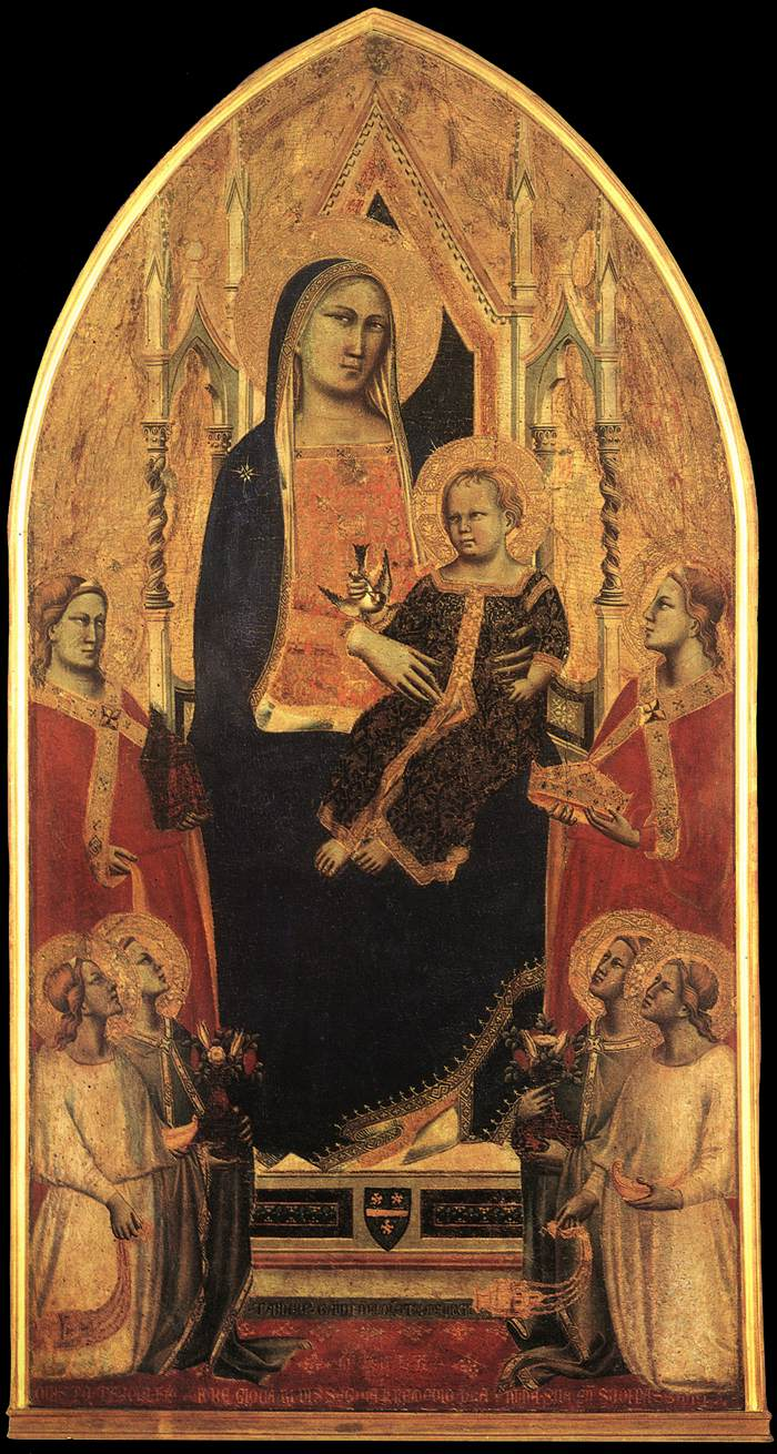 GADDI, Taddeo Madonna and Child Enthroned with Angels and Saints Tempera on wood, 154 x 80 cm Galleria degli Uffizi, Florence